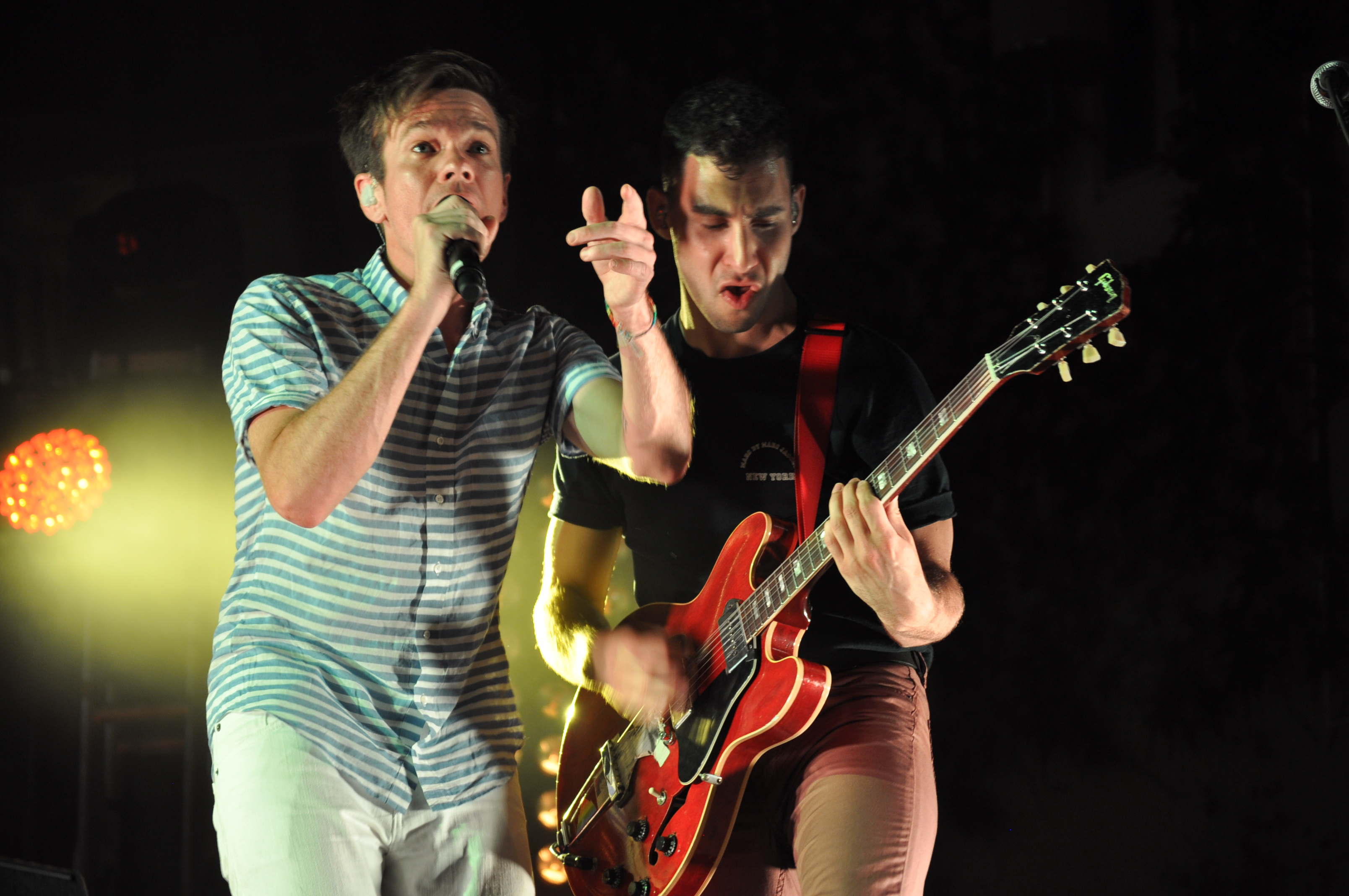 fun. Concert in Vegas - Nate Ruess and Jack Antonoff